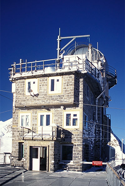 Sphinx Observatory